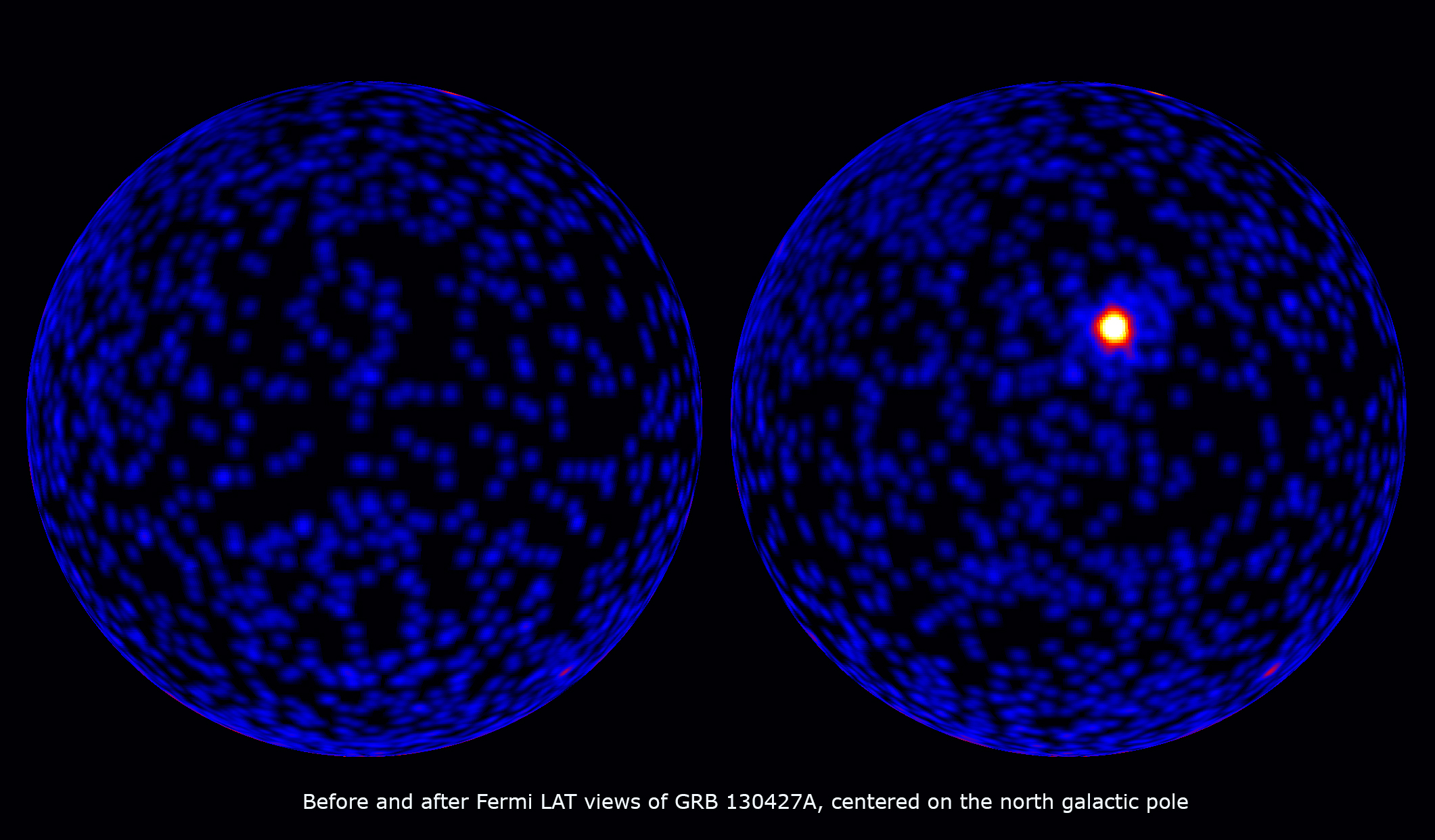 The maps in this animation show how the sky looks at gamma-ray energies above 100 million electron volts (MeV) with a view centered on the north galactic pole. The first frame shows the sky during a three-hour interval prior to GRB 130427A. The second frame shows a three-hour interval starting 2.5 hours before the burst, and ending 30 minutes into the event. The Fermi team chose this interval to demonstrate how bright the burst was relative to the rest of the gamma-ray sky. This burst was bright enough that Fermi autonomously left its normal surveying mode to give the LAT instrument a better view, so the three-hour exposure following the burst does not cover the whole sky in the usual way.